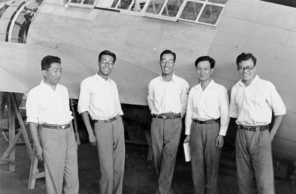 Employees of the Mitsubishi Heavy Industries, Ltd. posed for the photograph on July, 1937. Yoshitoshi Sone (left), Jirō Horikoshi (center).